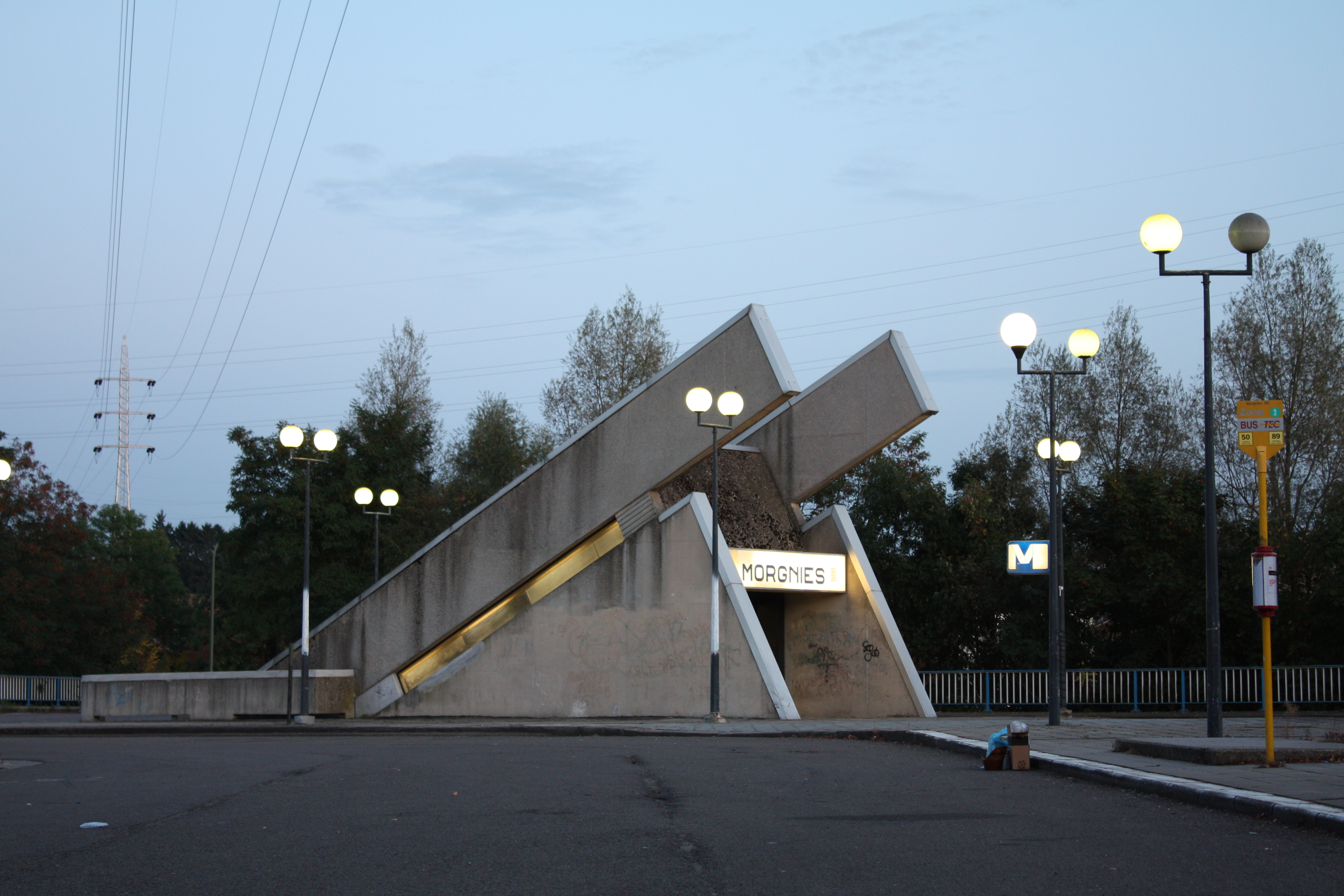 Morgnies station outside Shot on 2009-09-19 on a tour of Charleroi's subway, kindly hosted by TEC-Charleroi. - OpenStreetMap(Info)